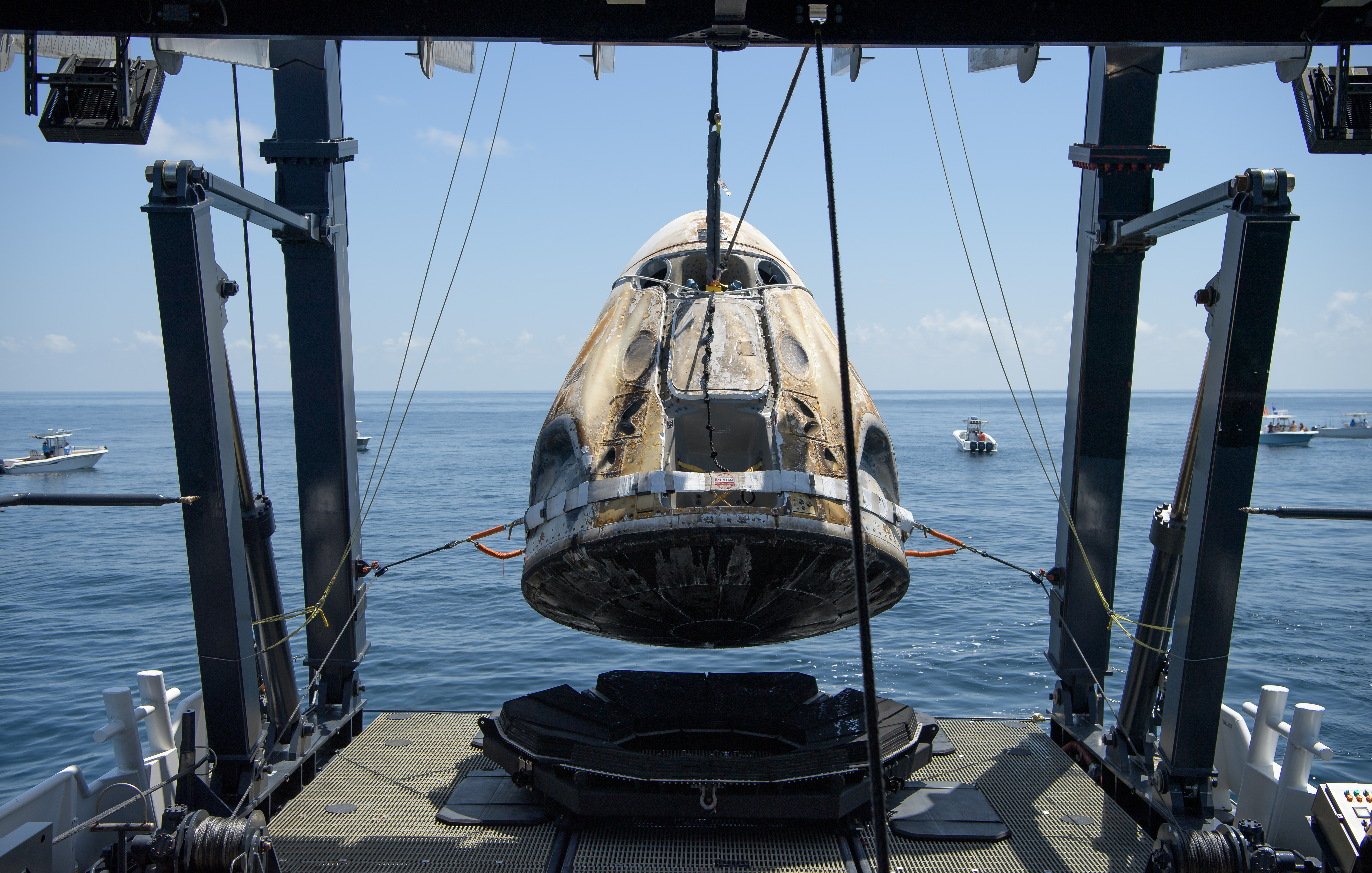 The SpaceX Crew Dragon Endeavour spacecraft is lifted onto the SpaceX GO Navigator recovery ship shortly after it landed with NASA astronauts Robert Behnken and Douglas Hurley onboard in the Gulf of Mexico off the coast of Pensacola, Florida, Sunday, Aug. 2, 2020. The Demo-2 test flight for NASA's Commercial Crew Program was the first to deliver astronauts to the International Space Station and return them safely to Earth onboard a commercially built and operated spacecraft. Behnken and Hurley returned after spending 64 days in space. Photo Credit: (NASA/Bill Ingalls)